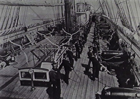 View from the poop lookng forward on British Amethyst class screw corvette HMS Sapphire, armed with RML 64 pounder 71 cwt guns.